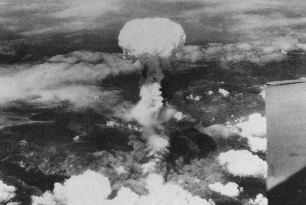 The mushroom cloud of Fat Man seen from the air. This photograph was likely taken by the crew of the B-29 bomber The Great Artiste, 9 Aug 1945